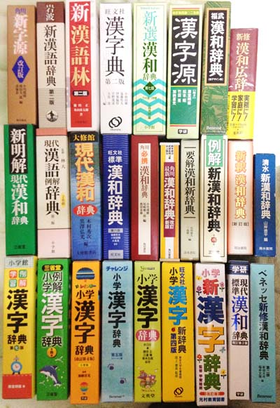 Chinese character dictionaries which were sold in Japan at present and past.